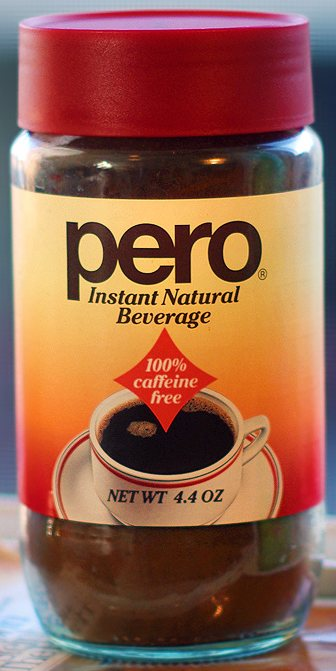 A jar of Pero beverage.